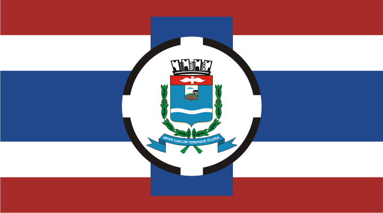 Bandeira de Divinolândia